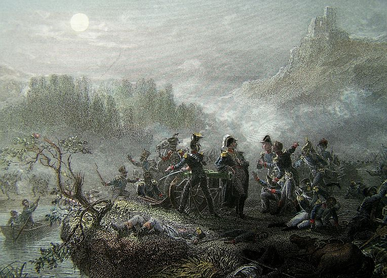 Marshal Mortier at the battle of Durenstein in 1805.